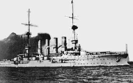 German battlecruiser SMS York